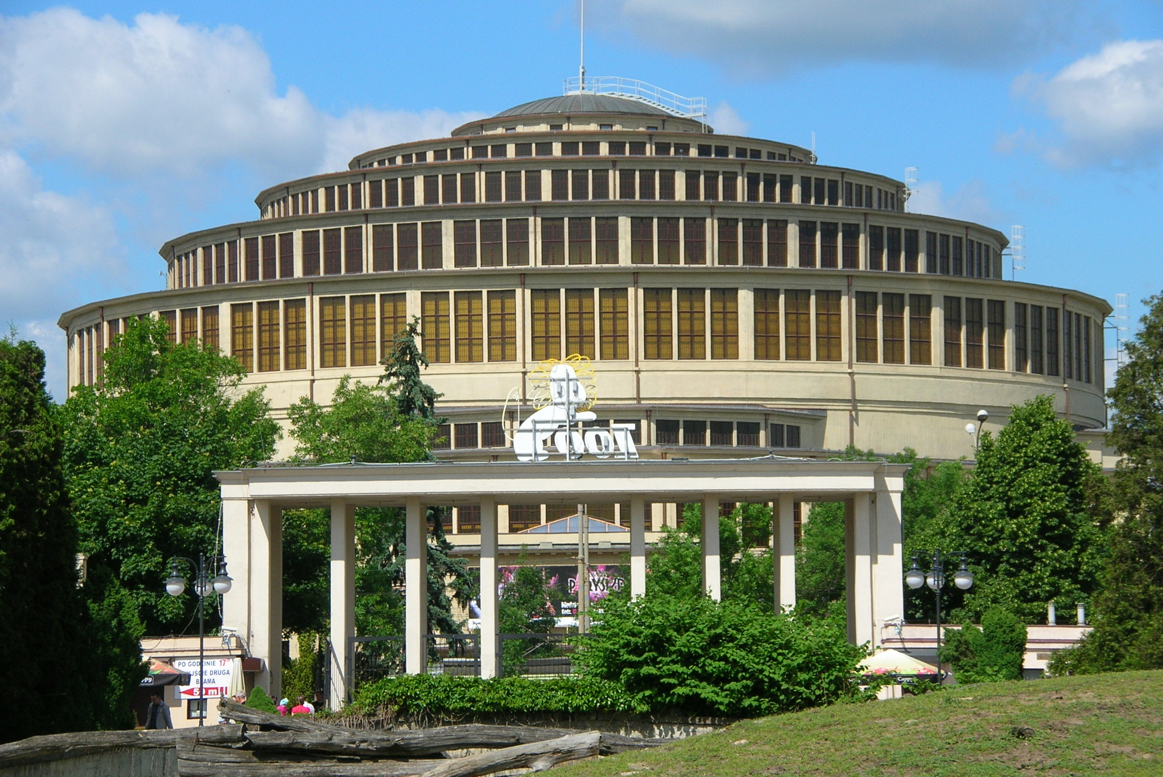 Centennial Hall after renovation in 2009 and gate to Zoo in Wrocław.